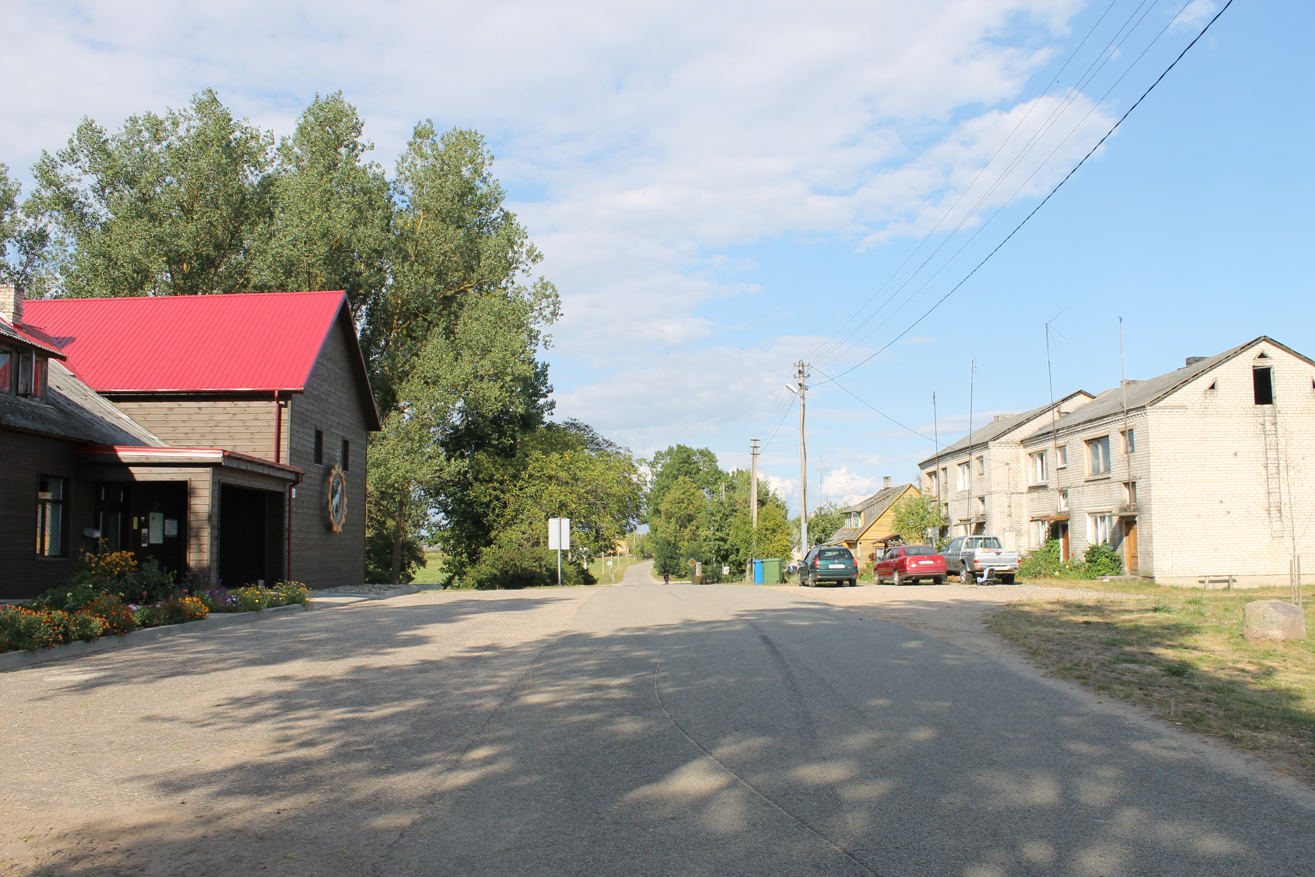 Jovaišiai village, Druskininkai municipality, Lithuania